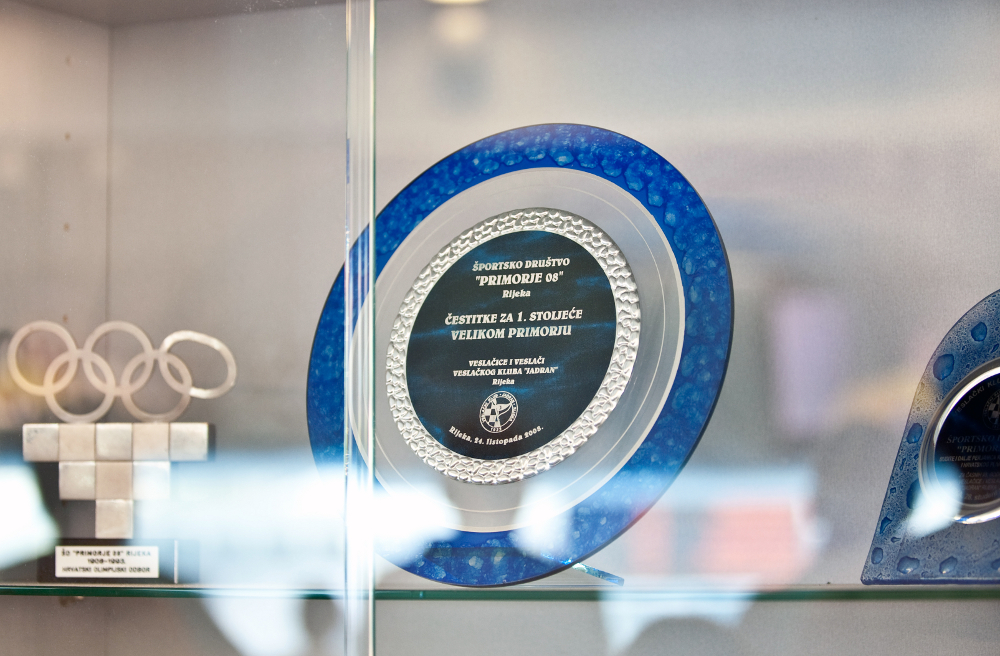 Kantrida Swimming Pools